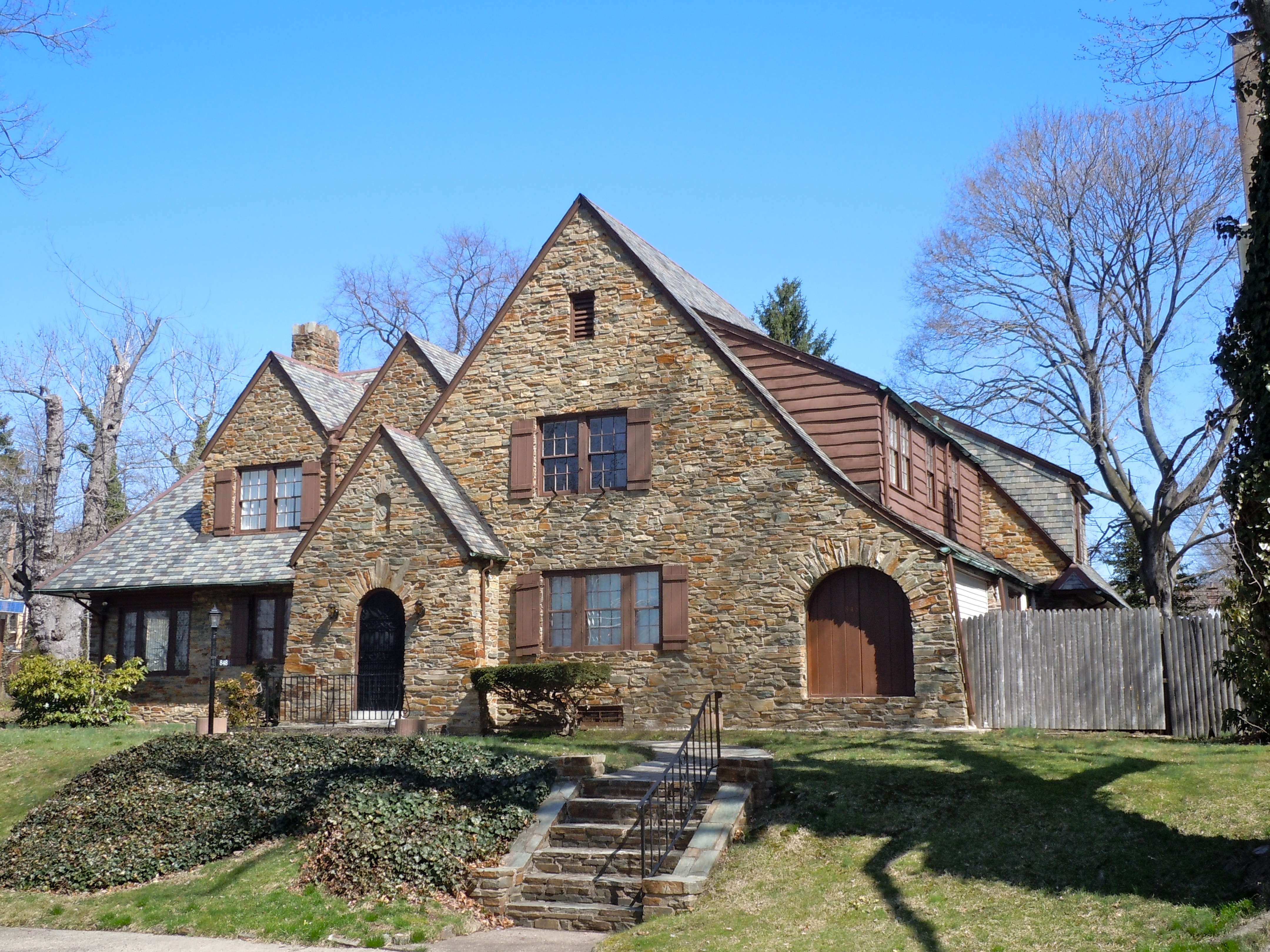 House in the Berkeley Square Historic District on the NRHP since November 20, 1980. The Historic District is roughly bounded by W. State St., Parkside, Riverside, and Overbrook Aves., Trenton, New Jersey. This particular house is on State St.